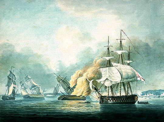 The image shows the last stages of the Action of 22 may 1812. From left to right: Mameluck, Ariane, Andromaque and Northumberland.